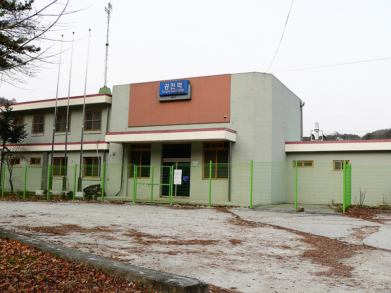 KORAIL Gongjeon Station